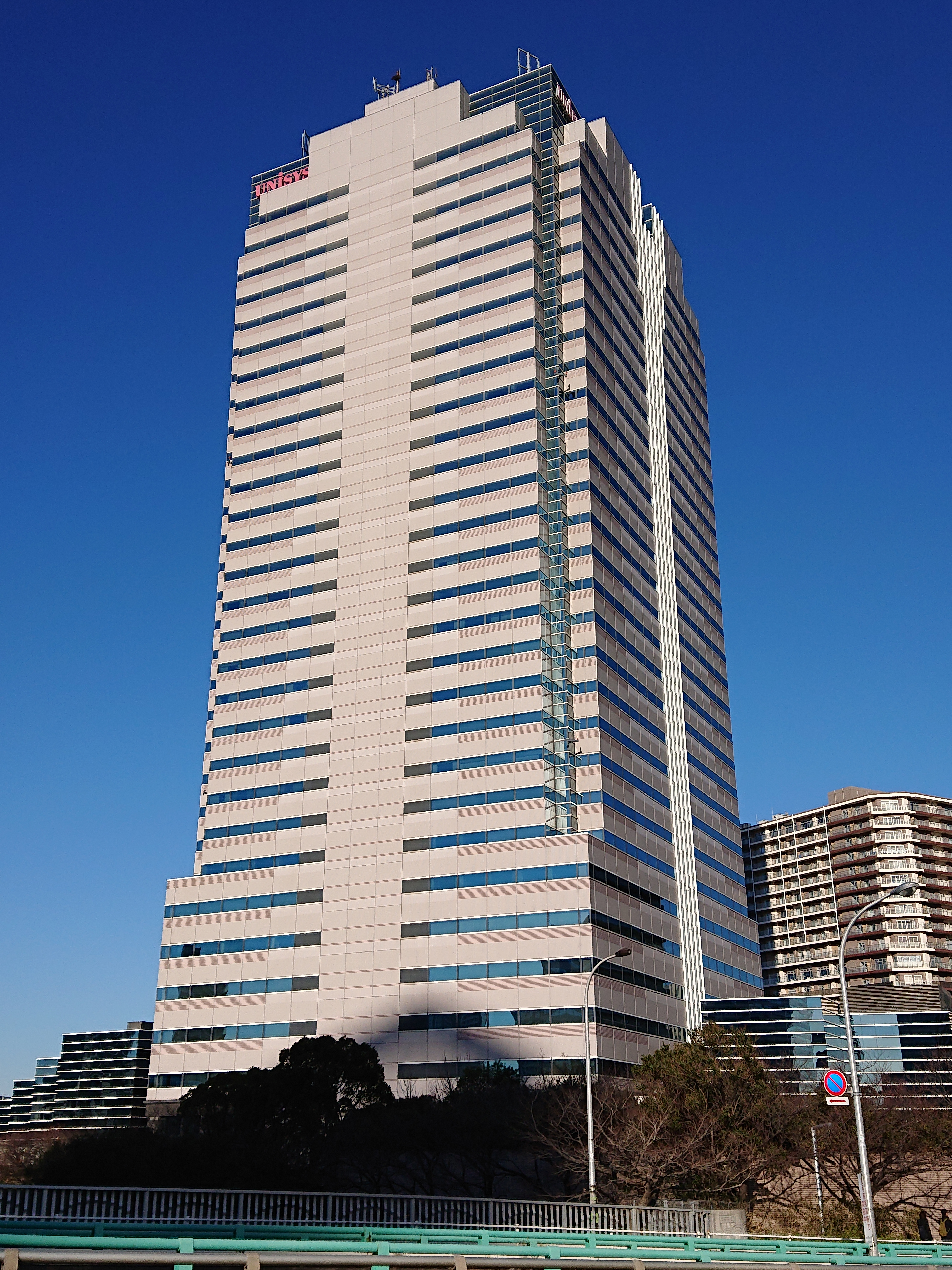 Toyosu ON Building, located at 1-1-1 Toyosu, Koto, Tokyo, Japan